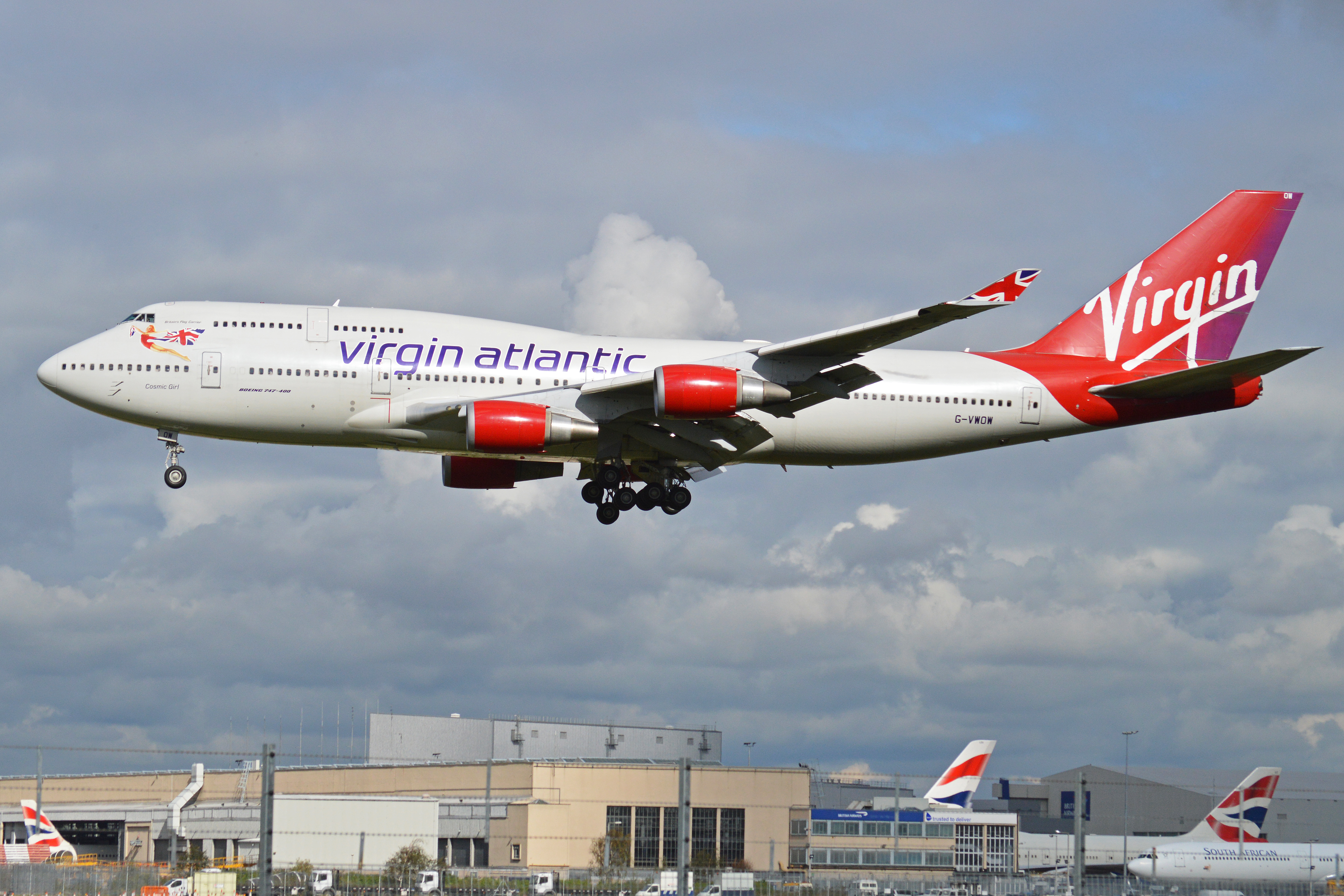 Arriving on flight VS020/V from San Francisco. c/n 32745, l/n 1287. London Heathrow. 5-10-2013